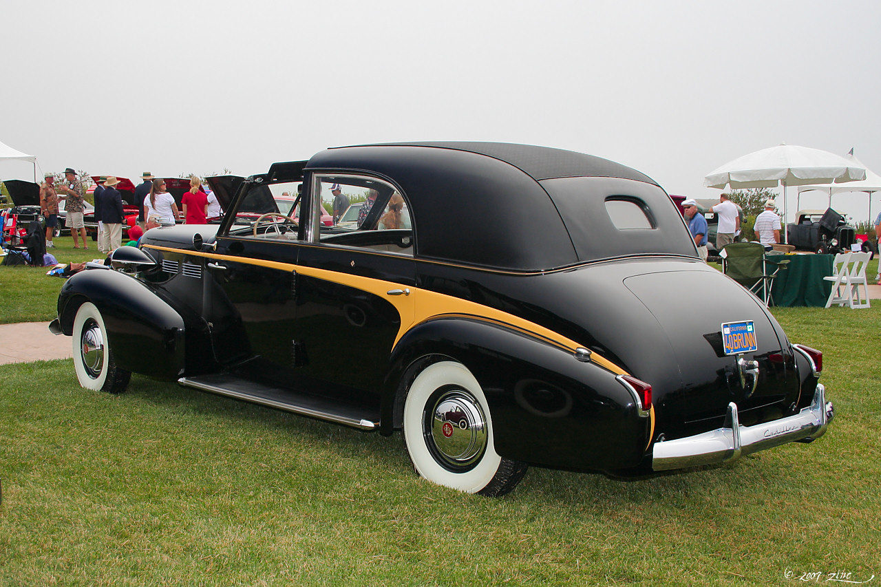 1940 Cadillac Series 40- 75 Fleetwood body by Brunn - grille Palos Verdes Concours d'Elegance Sep 15 2007